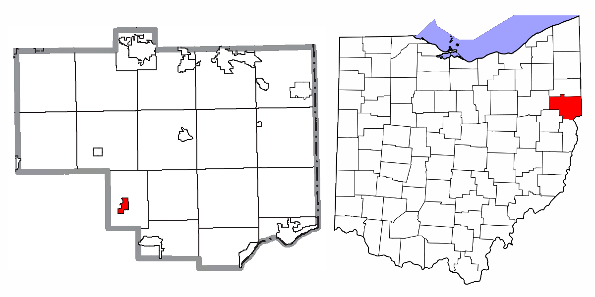 Map highlighting Village of Summitville, Columbiana County, Ohio.